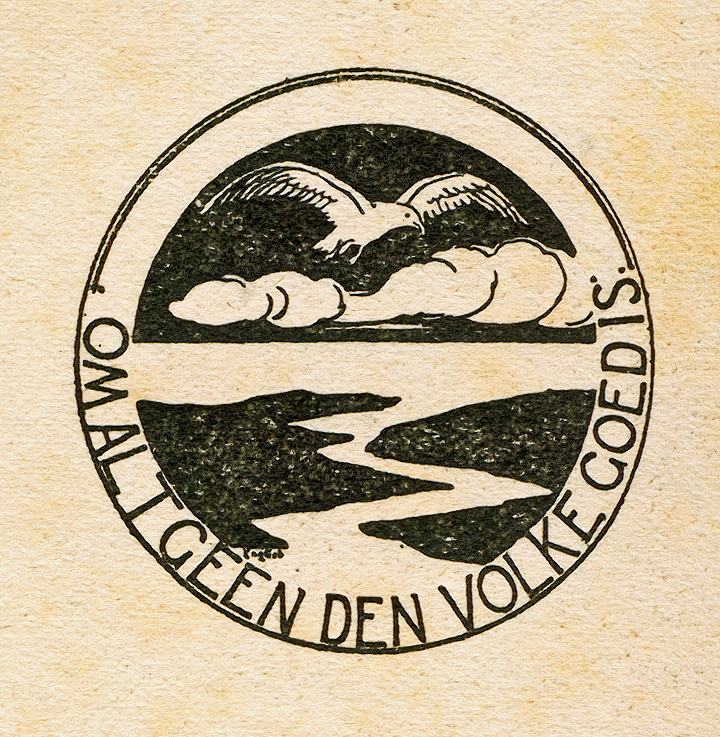 Logo of the Flemish publishing house De Vlaamsche Boekenhalle, drawn by Joe English (1882-1918)